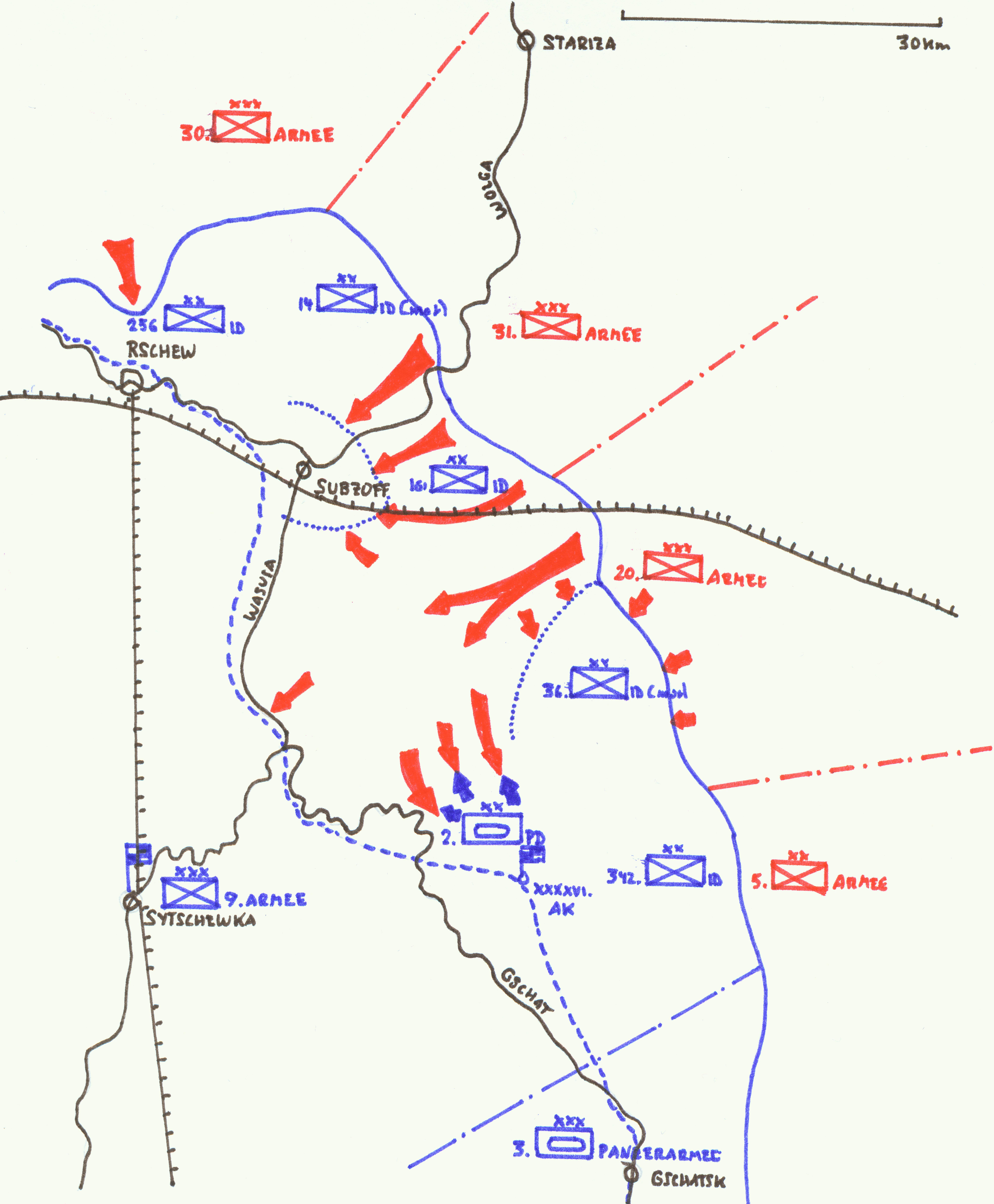 Rzhev August 1942